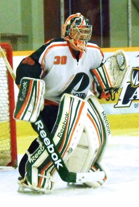 Photo taken by Devan Mighton of CIS men's hockey.